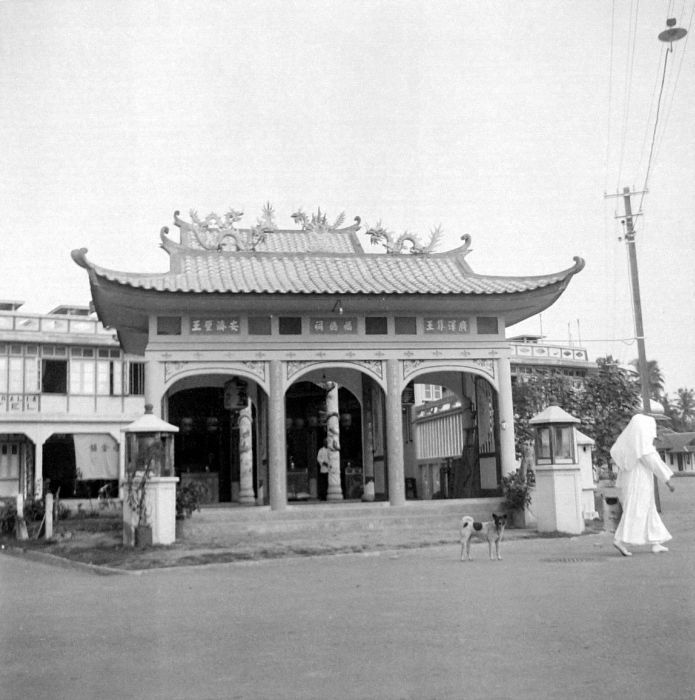 Chinese temple